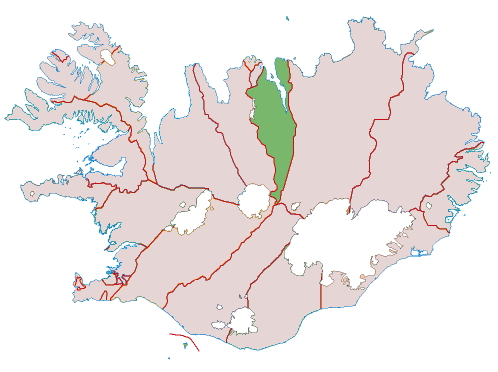 Map of Eyjafjarðarsýsla, Iceland.